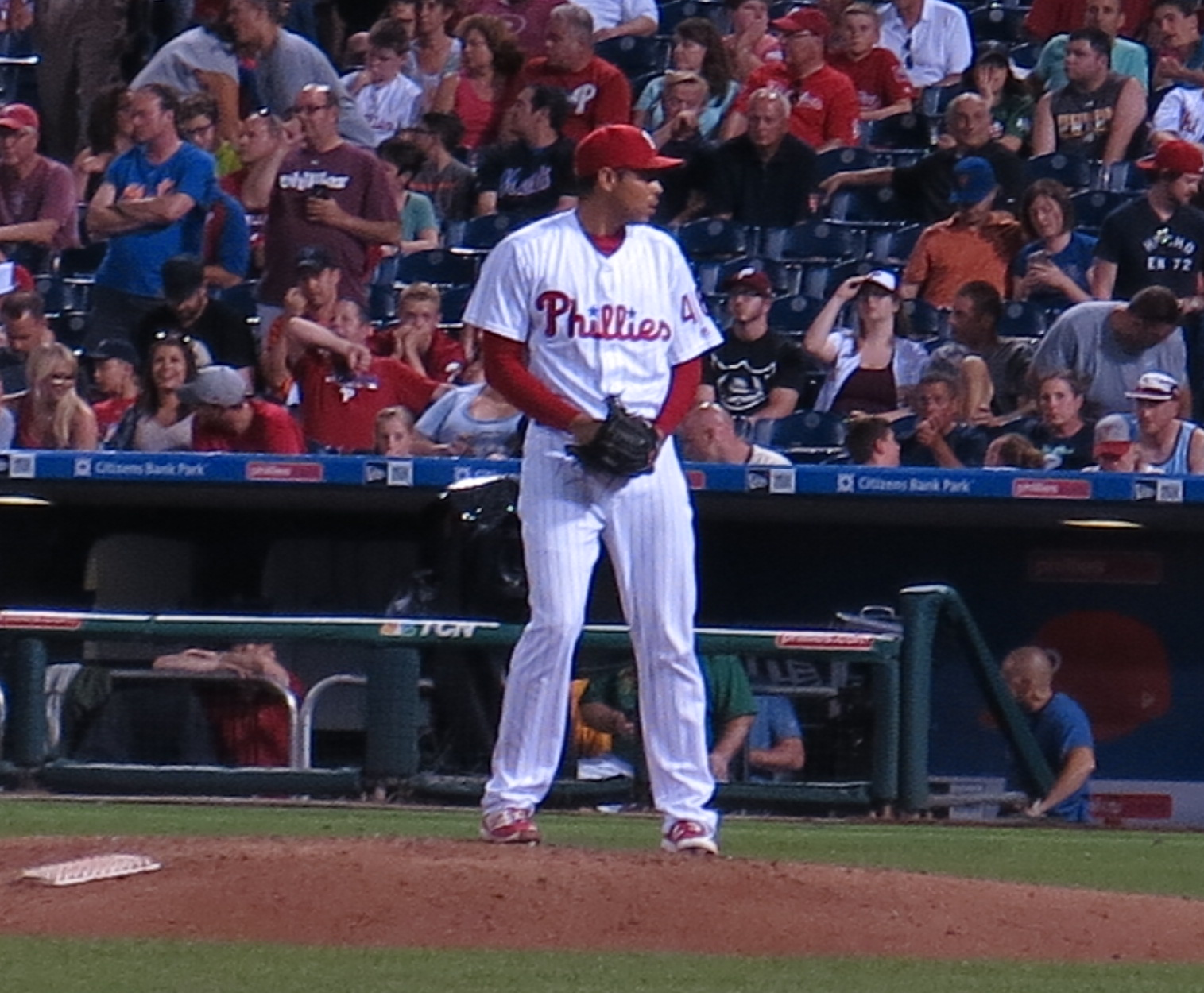 Jeanmar Gómez of the Philadelphia Phillies, July 16, 2016.